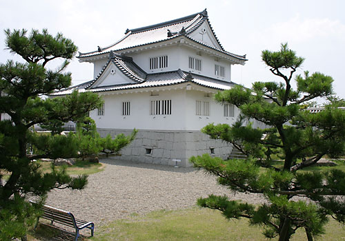 Minakuchi Castle, Shiga Prefecture. Photo by Philbert Ono.